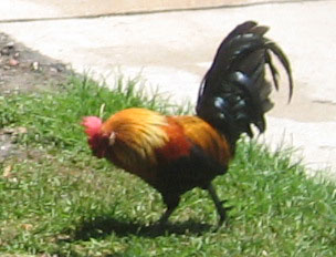 Oviedo Chickens congregating behind a Popeye's.